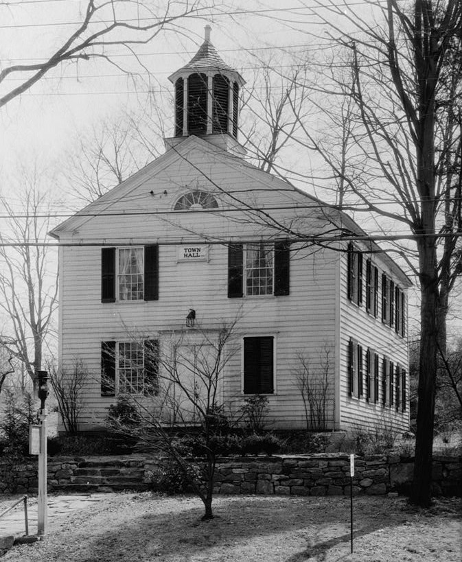 Wilton Town Hall, Wilton (Fairfield County, Connecticut) cropped This file comes from the Historic American Buildings Survey (HABS), Historic American Engineering Record (HAER) or Historic American Landscapes Survey (HALS). These are programs of the National Park Service established for the purpose of documenting historic places. Records consist of measured drawings, archival photographs, and written reports. When reusing please credit: Library of Congress, Prints & Photographs Division, CONN,1-WILT,2-1 This tag does not indicate the copyright status of the attached work. A normal copyright tag is still required. See Commons:Licensing. This work is in the public domain in the United States because it is a work prepared by an officer or employee of the United States Government as part of that person’s official duties under the terms of Title 17, Chapter 1, Section 105 of the US Code. Note: This only applies to original works of the Federal Government and not to the work of any individual U.S. state, territory, commonwealth, county, municipality, or any other subdivision. This template also does not apply to postage stamp designs published by the United States Postal Service since 1978. (See § 313.6(C)(1) of Compendium of U.S. Copyright Office Practices). It also does not apply to certain US coins; see The US Mint Terms of Use. This file has been identified as being free of known restrictions under copyright law, including all related and neighboring rights. Object location41° 11′ 43″ N, 73° 26′ 20″ W